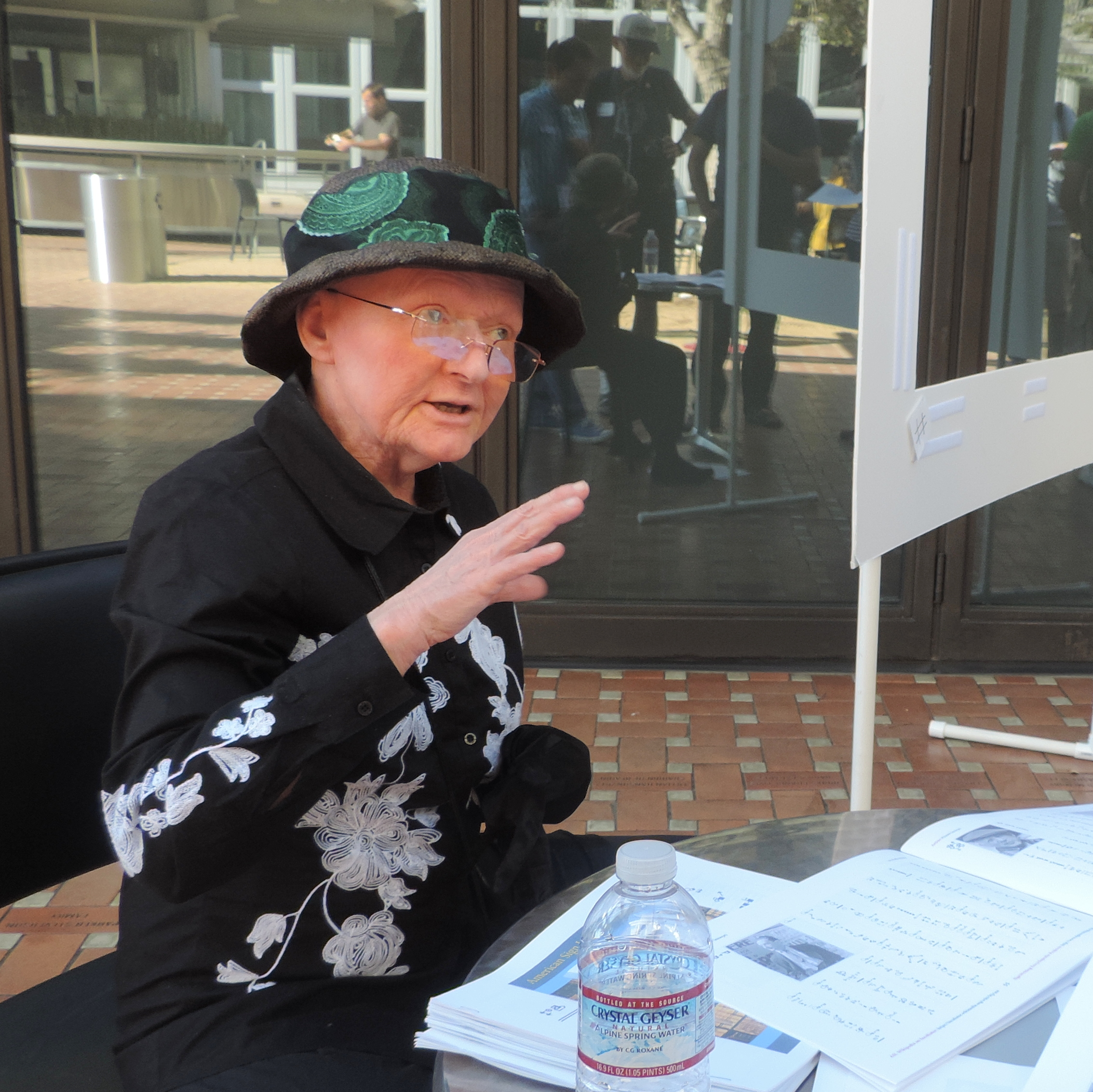 Looking south in SDPL courtyard where Valerie Sutton, inventor of Sutton Movement Writing, explains the American Sign Language Wikipedia (language code ase).